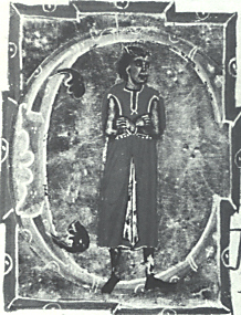 Marcabru, from MS 12473, folio 102r in the Bibliothèque Nationale de France.